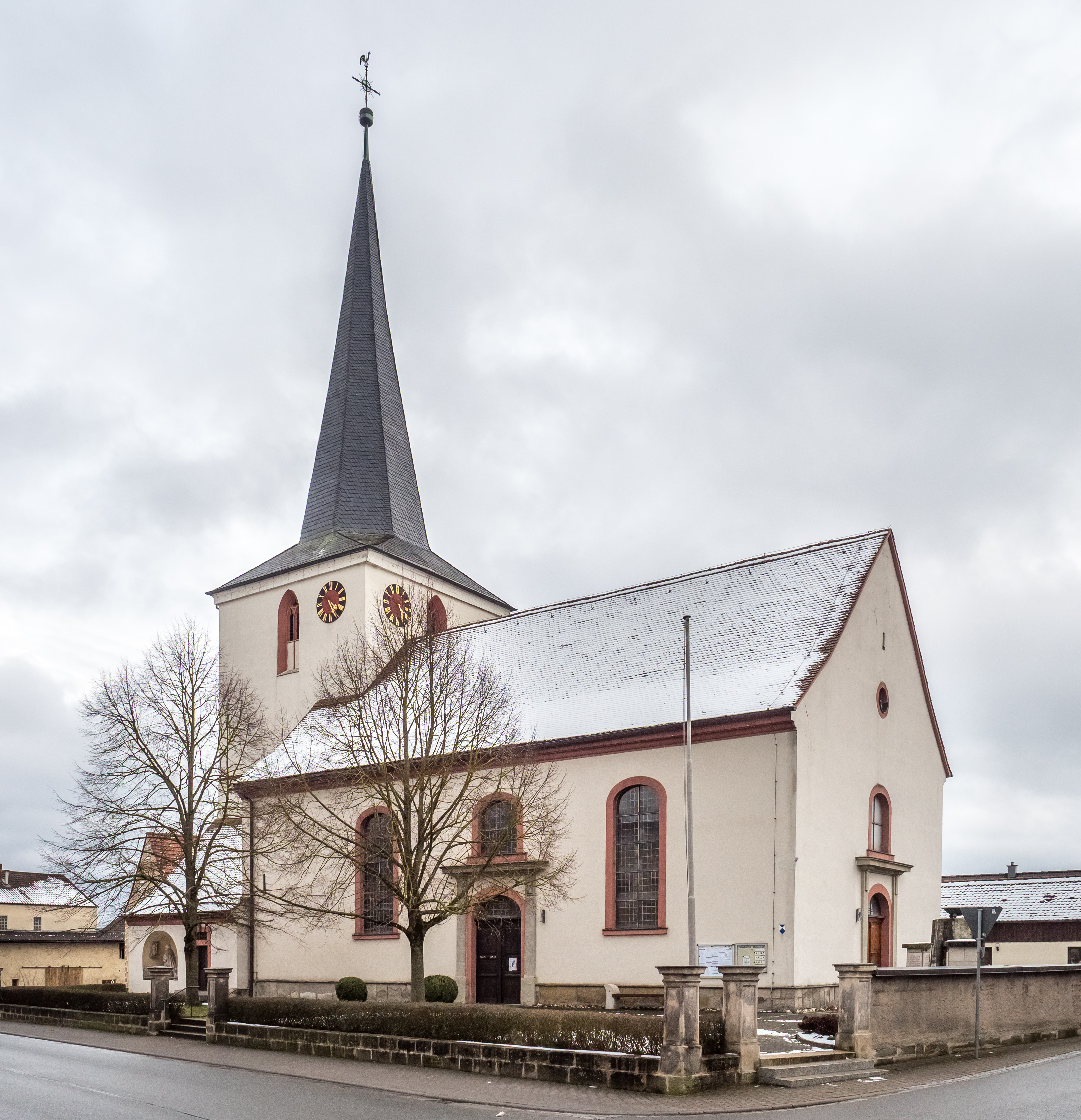 Catholic branch church of St. Bartholomew in Thüngfeld near Schlüsselelfeld in Upper Franconia